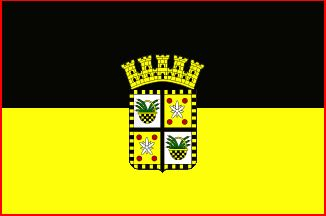 Flag of Yauco, Puerto Rico